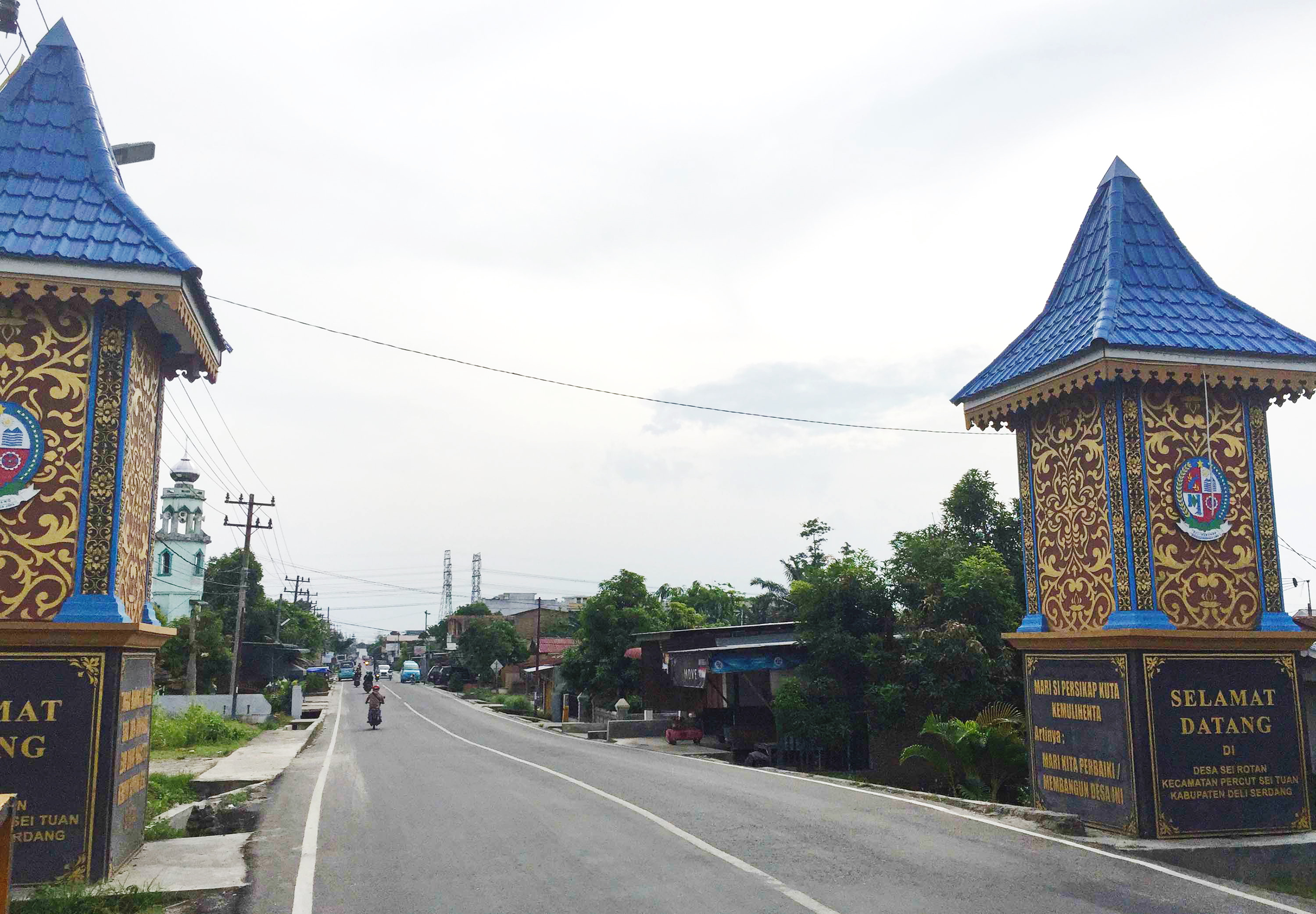 Welcome gate to Sei Rotan, Percut Sei Tuan, Deli Serdang